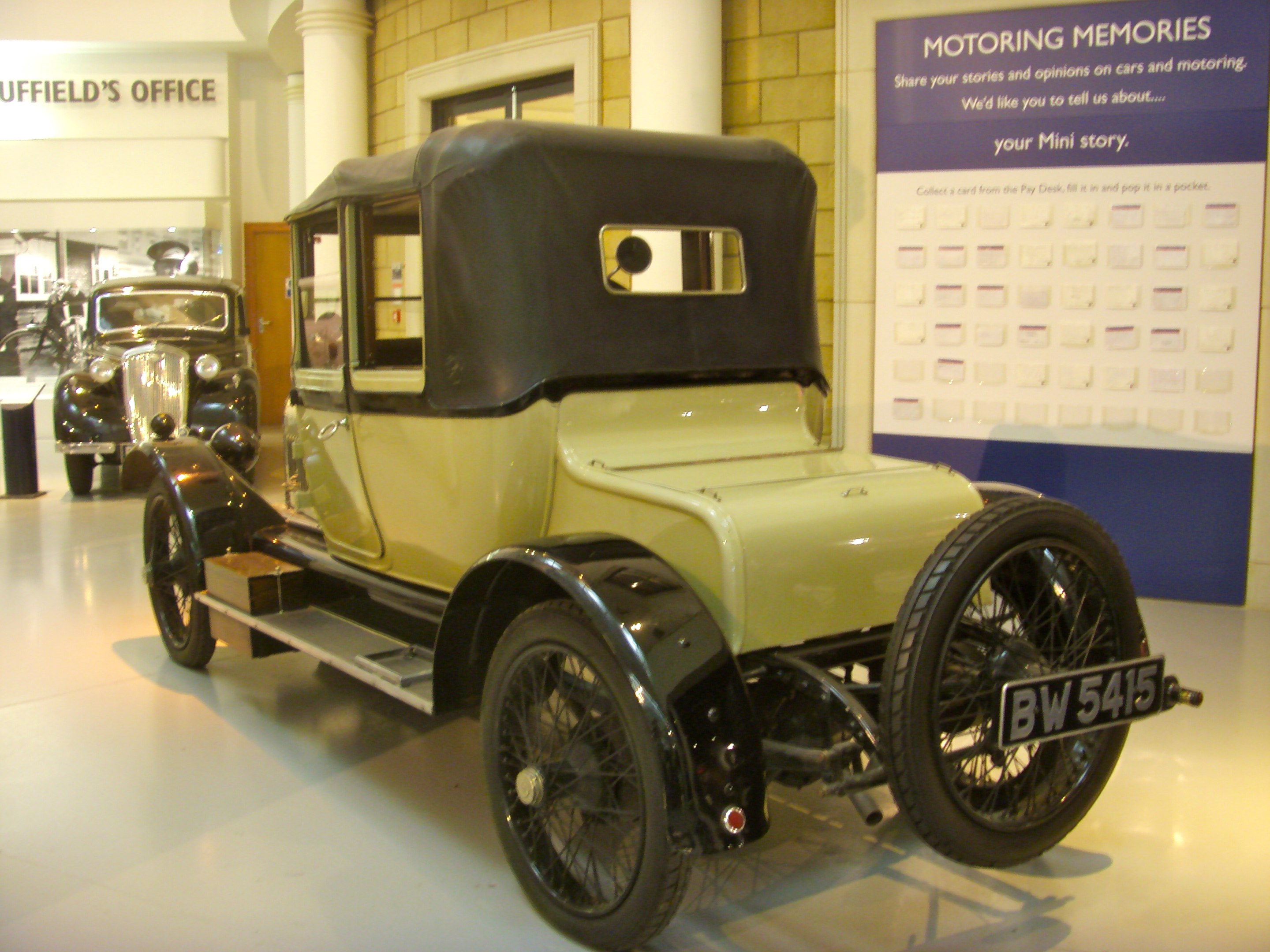 Lord Nuffield's personal transport, only survivor of approximately fifty produced. This particular car was the prototype finished in October 1921.It has probably the most luxurious coachwork fitted to any bullnose